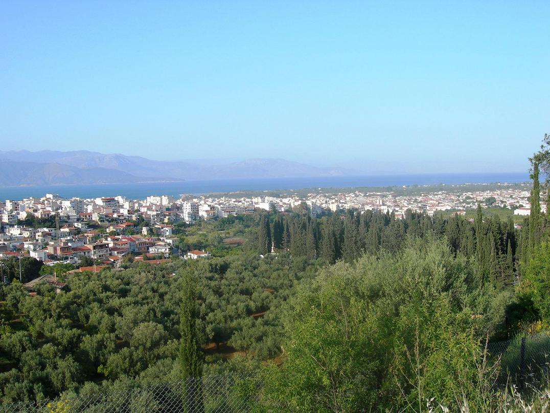 View of Aigion from the regional road Aigio-Dafnes, near Voulomenou region